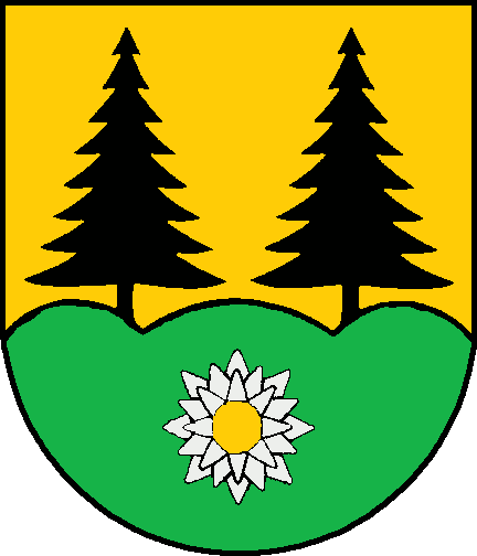 Coat of arms of the municipality Westre in Schleswig-Holstein, Germany.